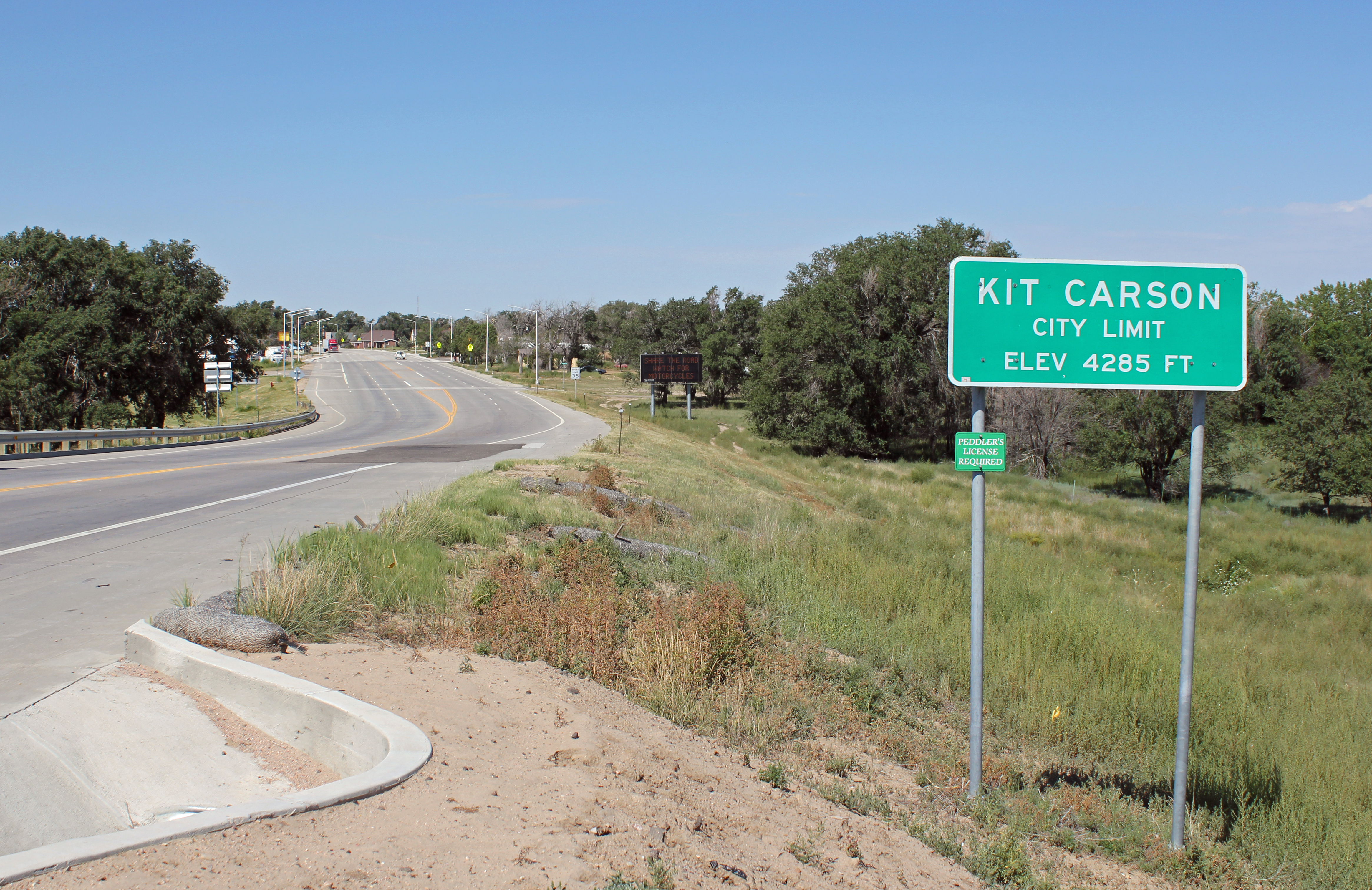 Kit Carson, Colorado.